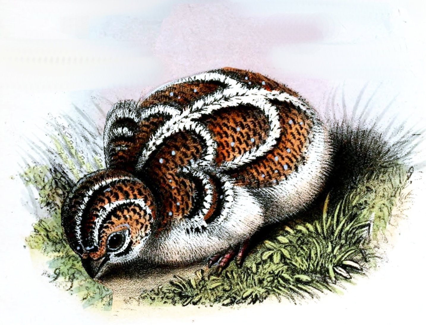 Chick of Pin-tailed Sandgrouse (right)